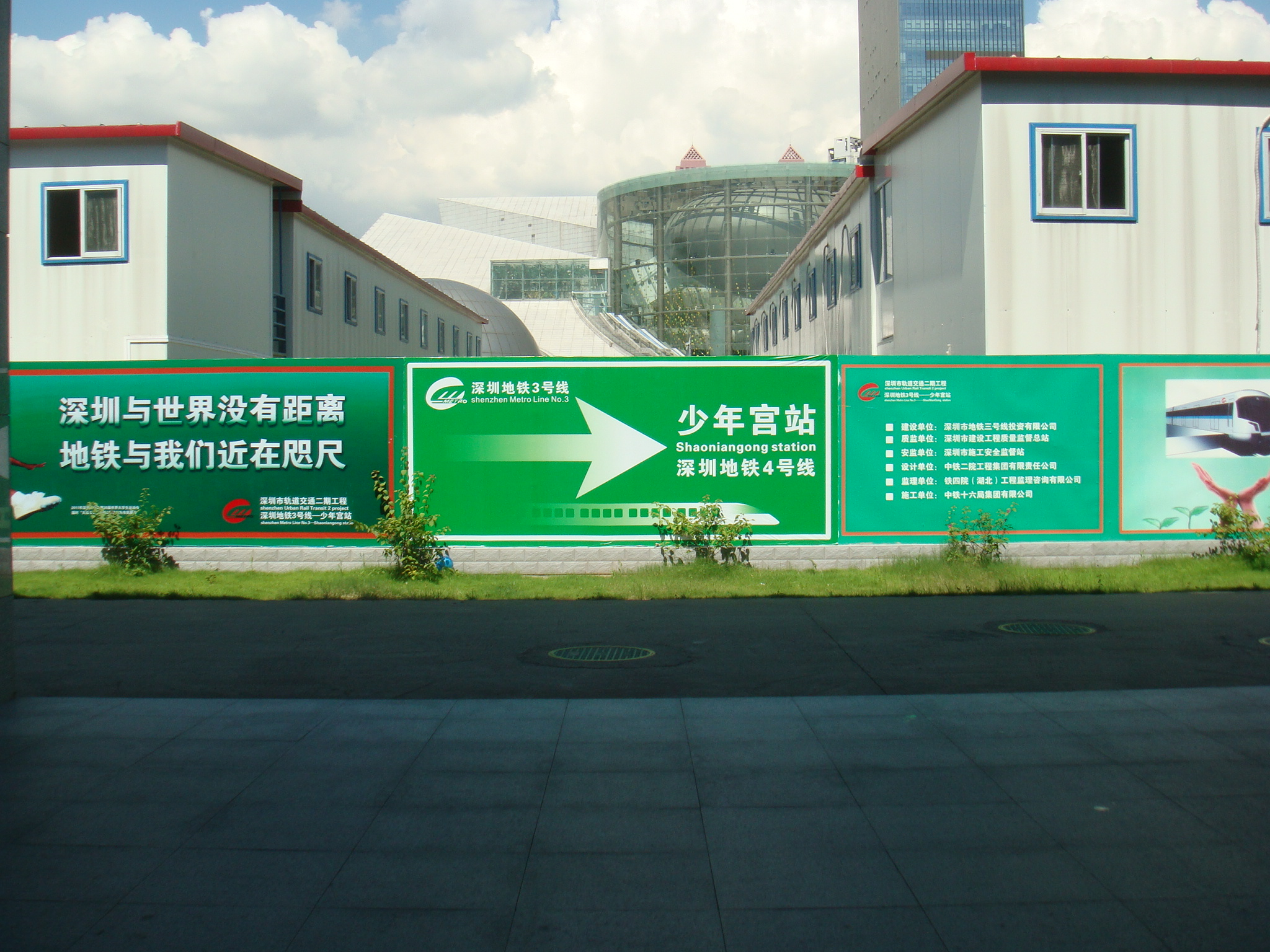 Shao Nian Gong(Children Palace) Station of SZMTR.